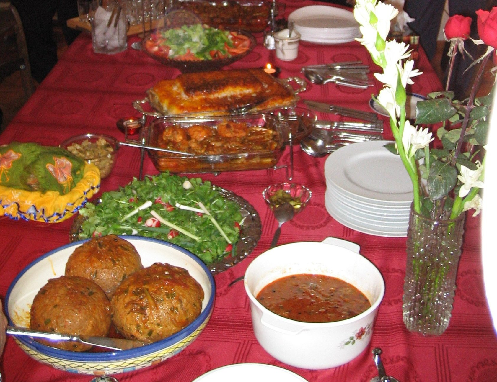 A typical iranian azeri table setting.